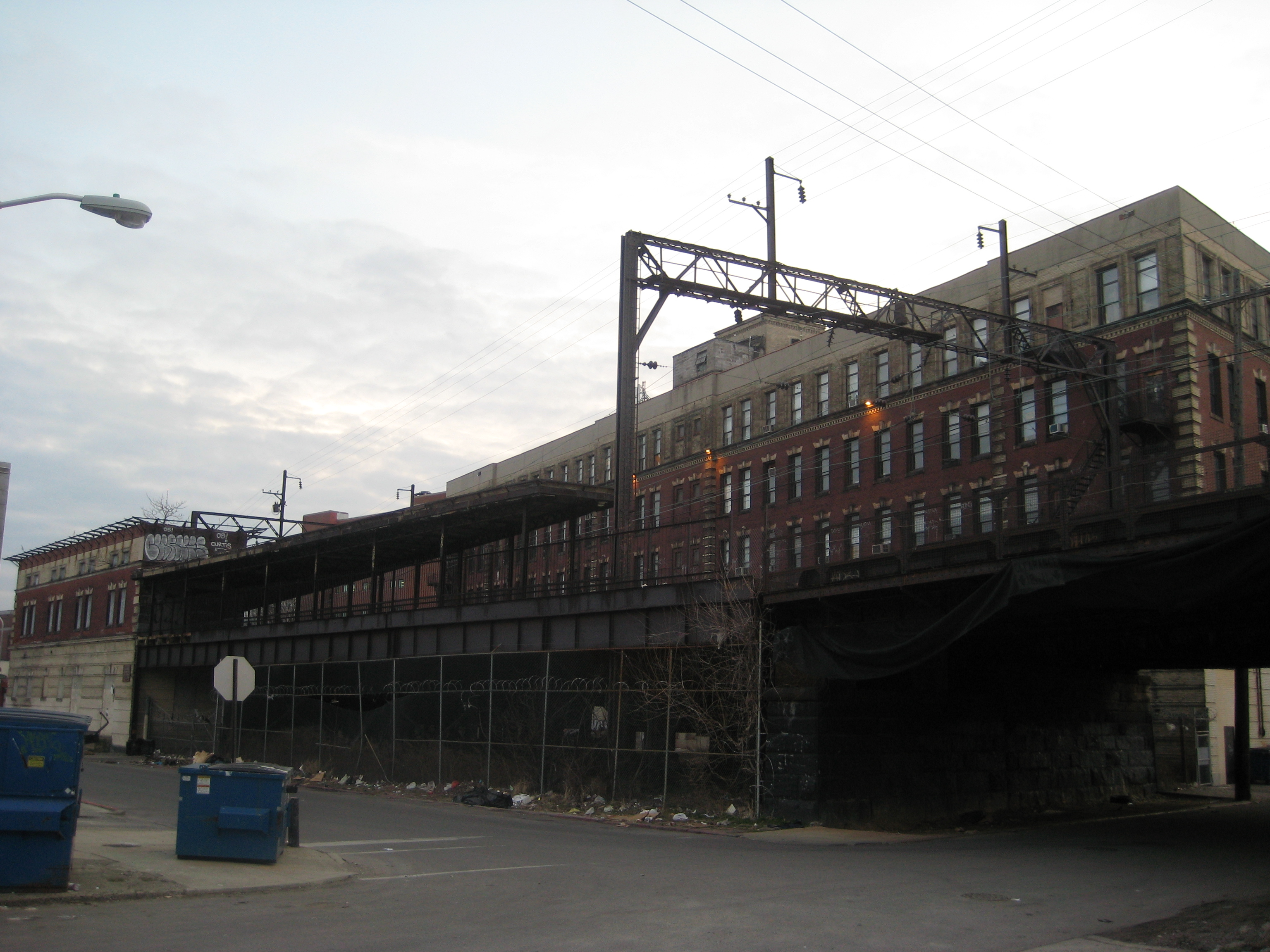 A station on the Reading Viaduct, an abandoned one-mile long elevated railway.